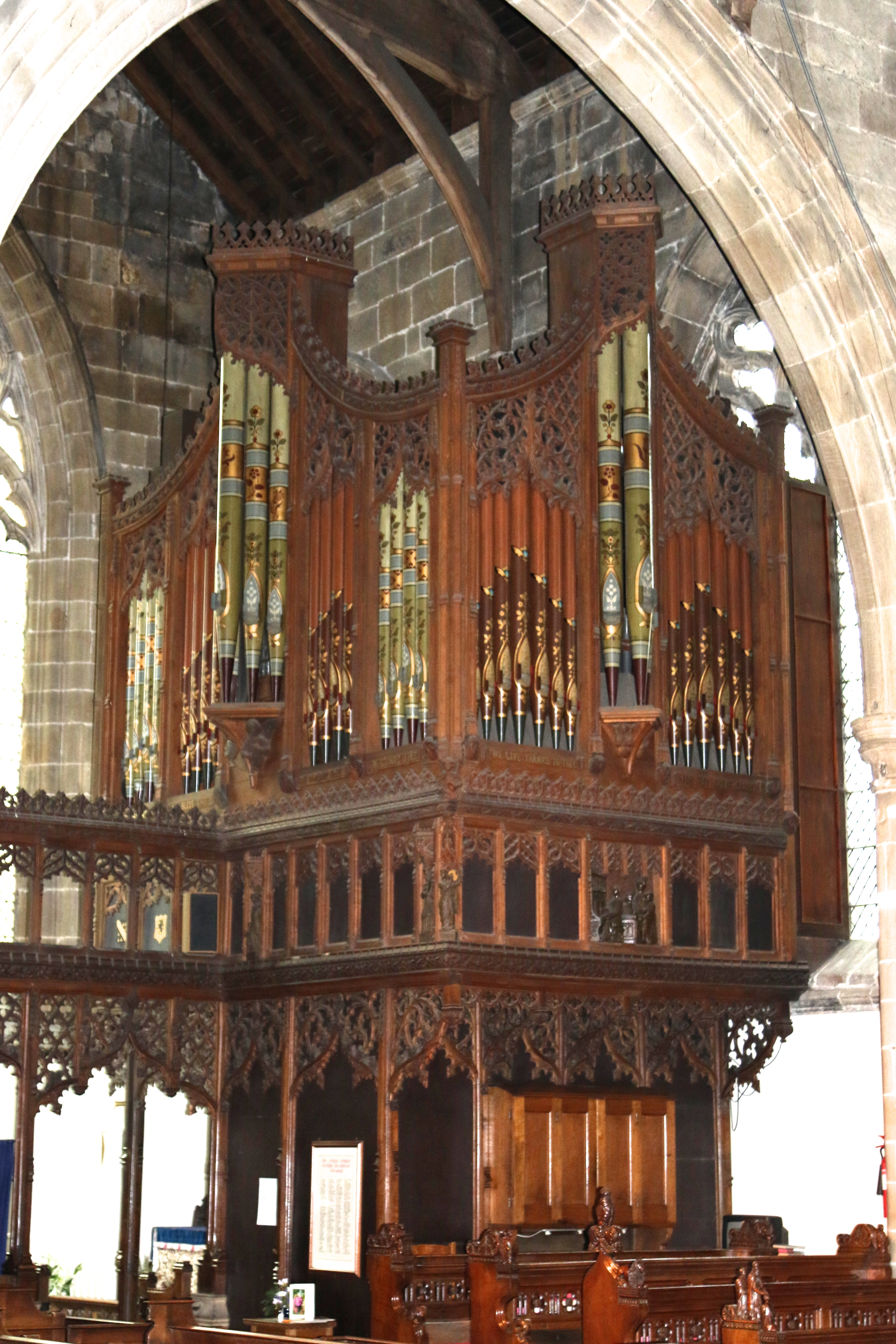 The main organ in the north transept of St John the Baptist's Church, Tideswell